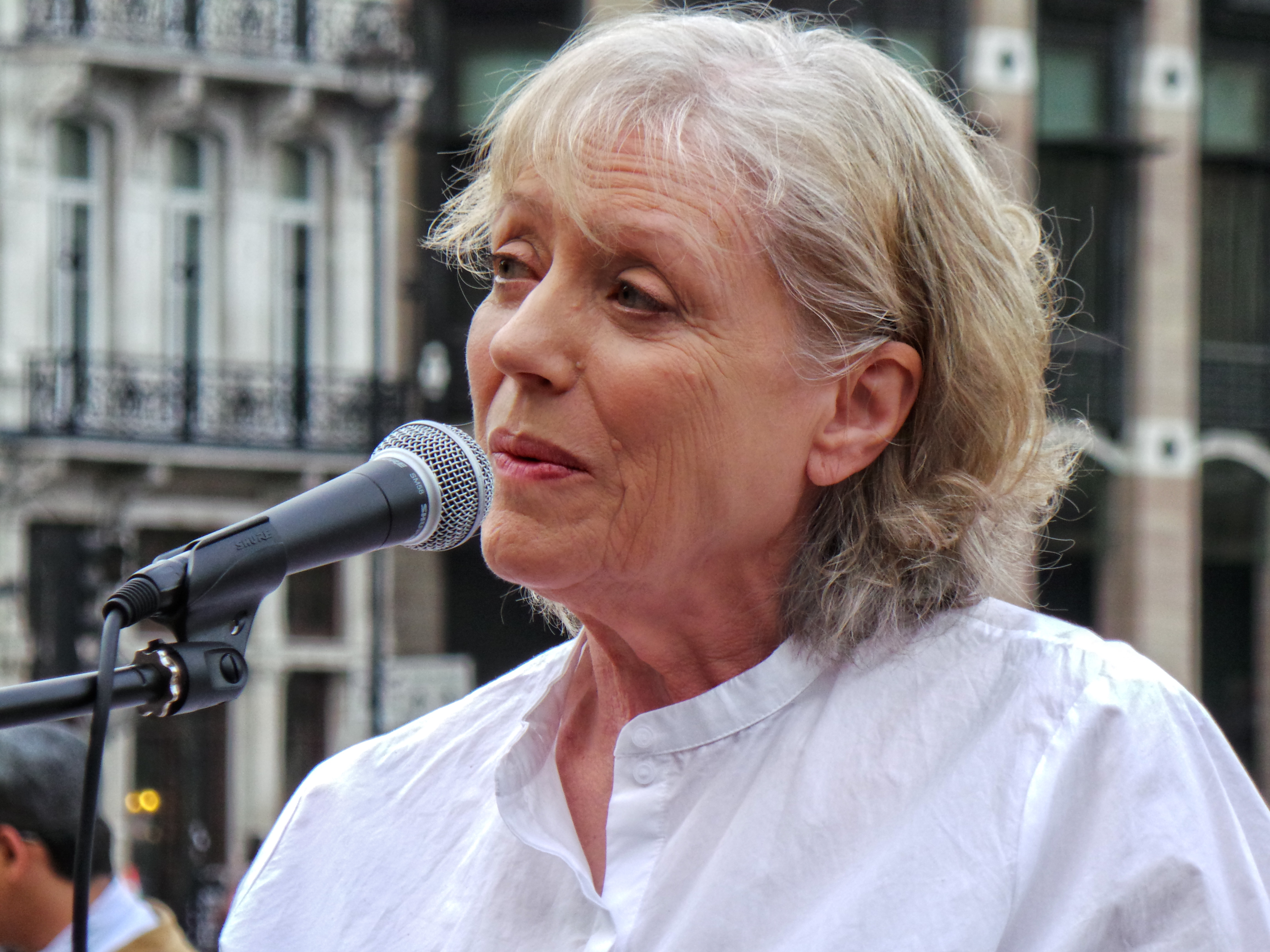 English actress Kika Markham at the No More War event at Parliament Square in August 2014.